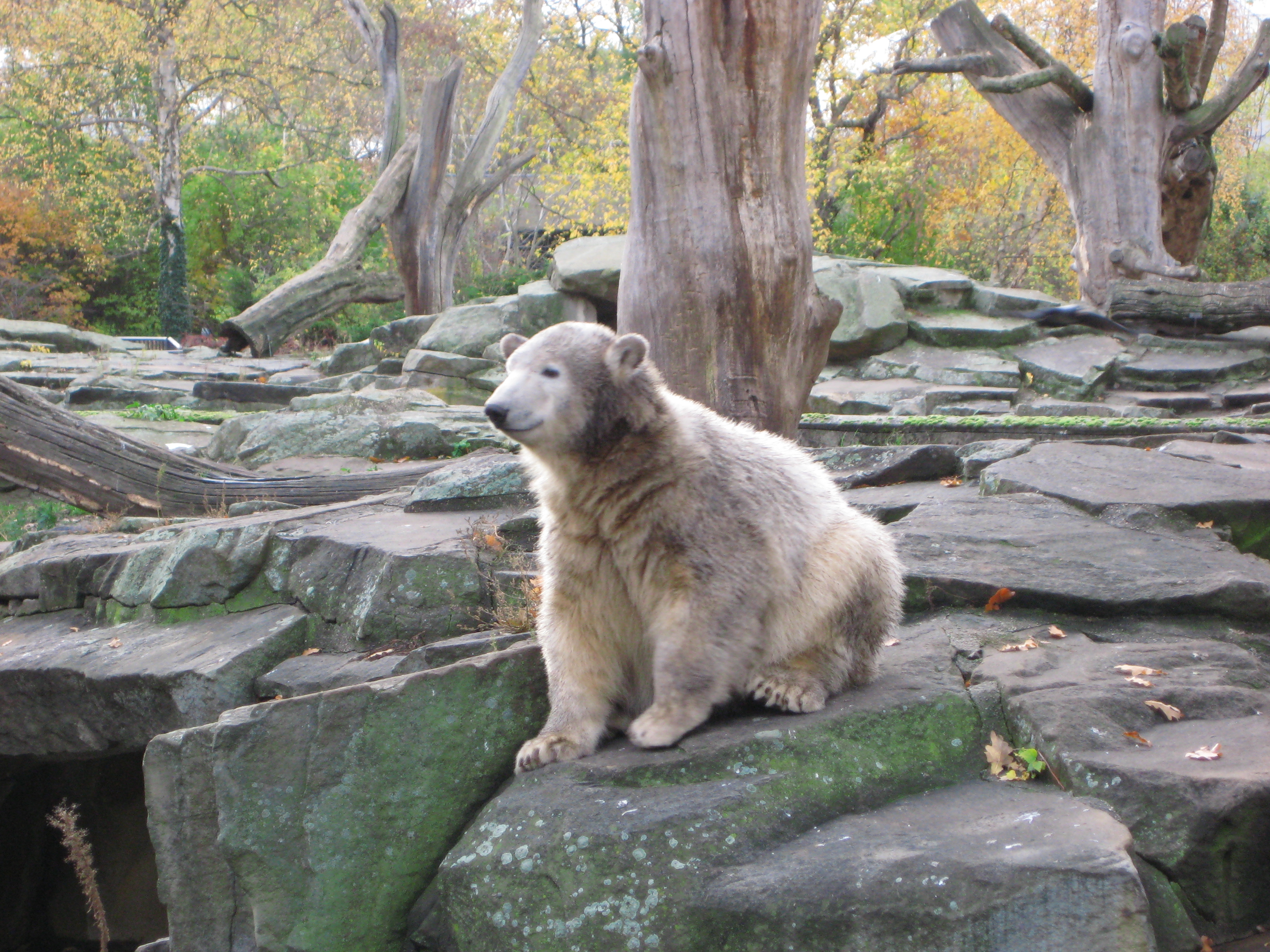 Polar bear Knut at the age of 10 months (Zoo of Berlin)